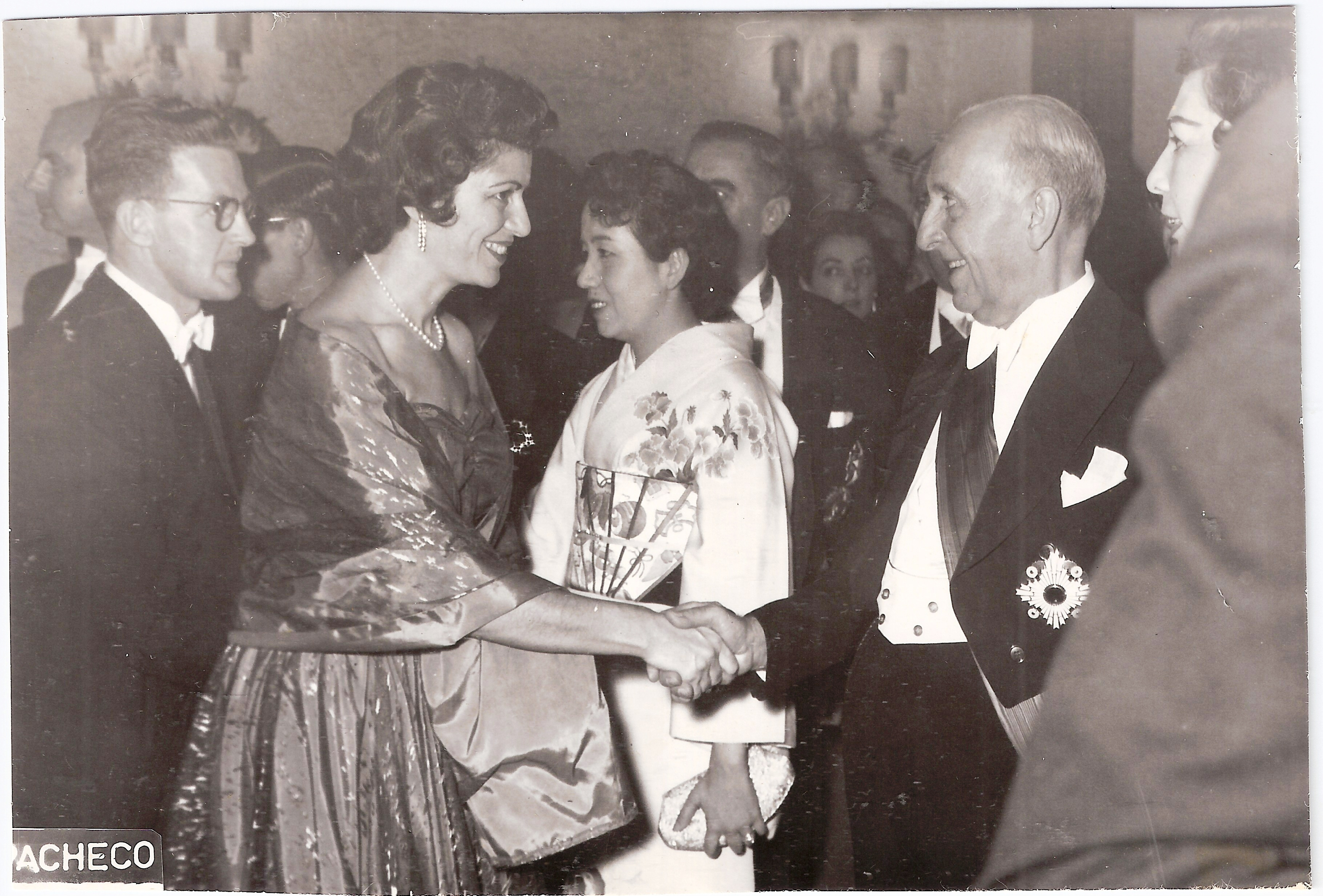 Aba & Frida Gefen meet the President of Peru Manuel Prado Ugarteche